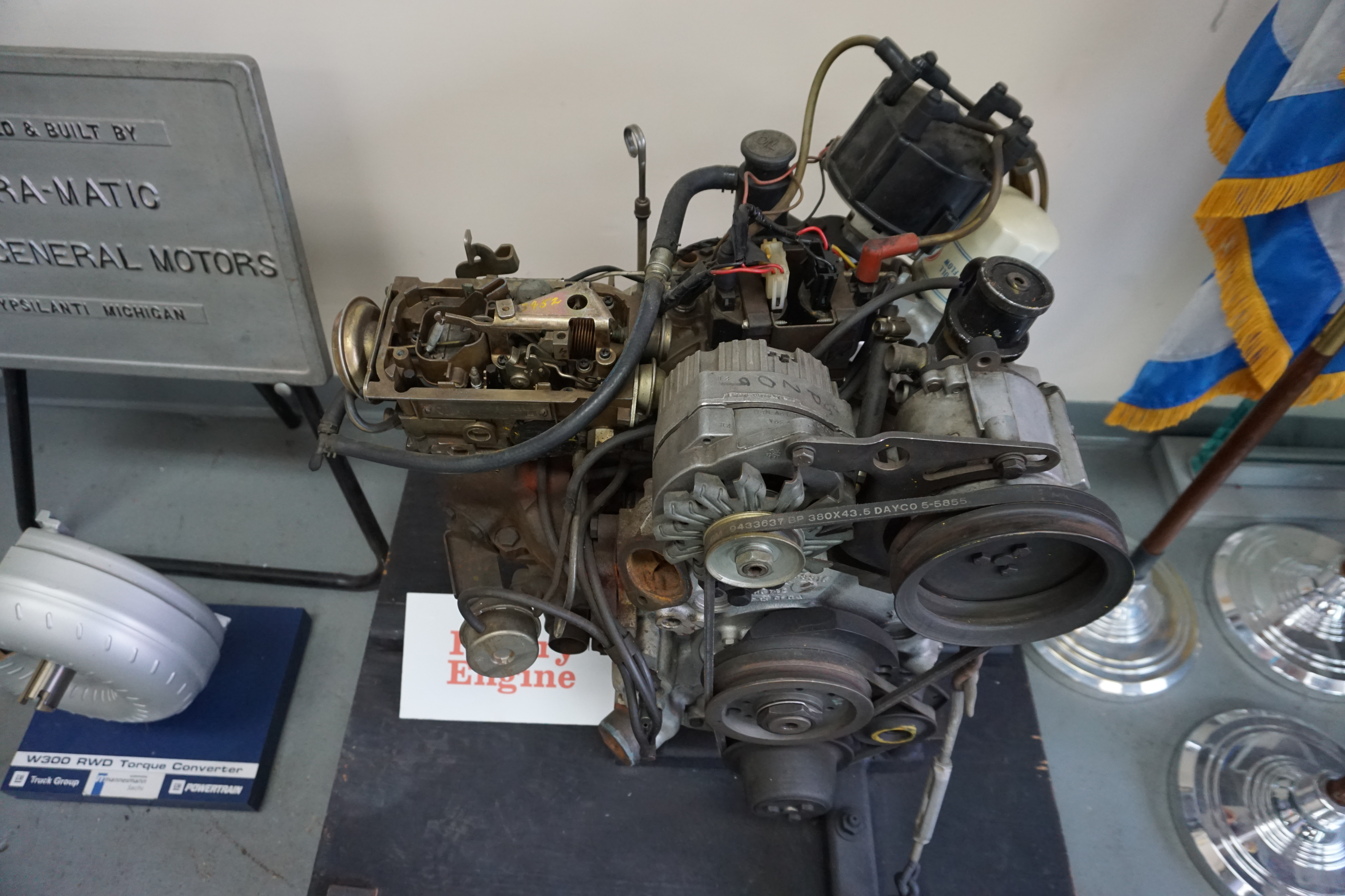 A General Motors rotary engine at the Ypsilanti Automotive Heritage Museum in Ypsilanti, Michigan (United States).